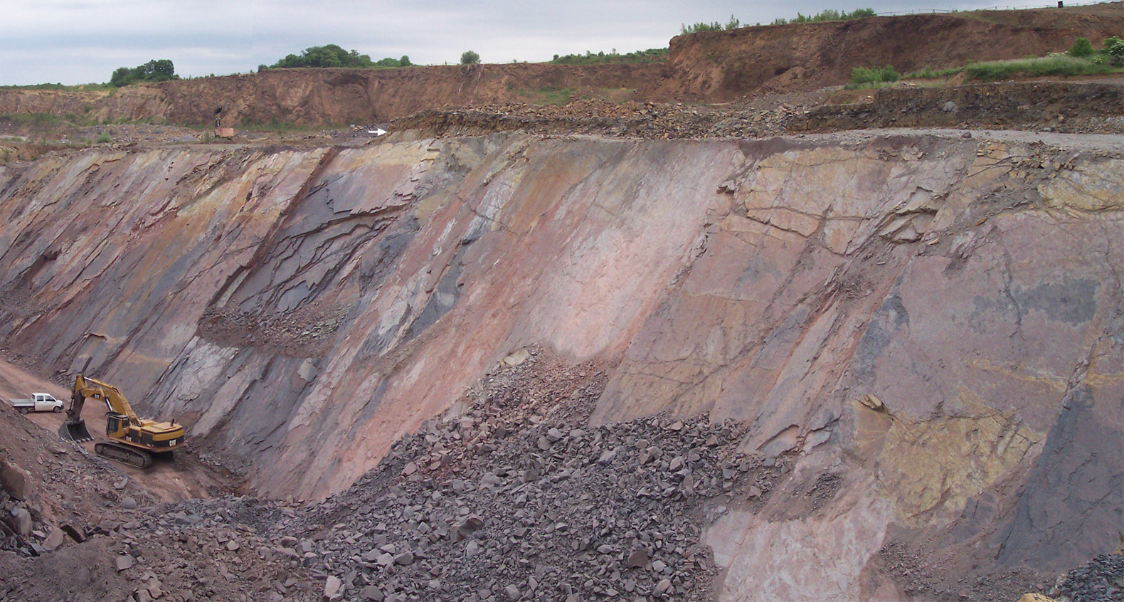 Bedding planes of steeply tilted Lower Carboniferous greywacke and shale beds in the southern part of the opencast mine Kamsdorf. Viewing direction is almost exactly to the northeast. On the upper level the tilted beds are discordantly overlain by Upper Permian (Zechstein) bituminous carbonate rocks (white arrow marks outcrop of discordance plane). (Kamsdorf near Saalfeld, Thuringia, Germany)